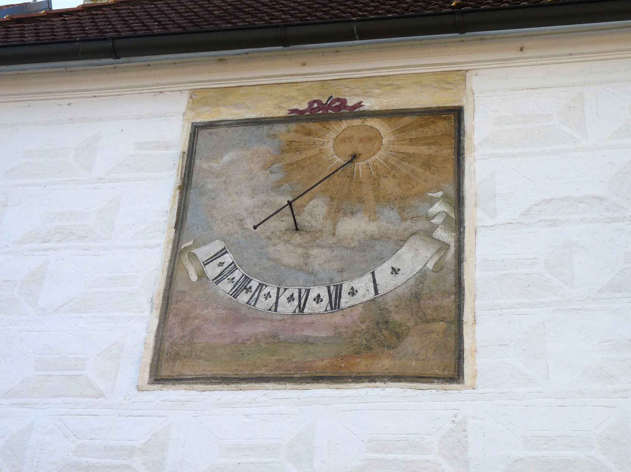 Sundial on the Žichovice Castle, Klatovy District, Plzeň Region, Czech Republic